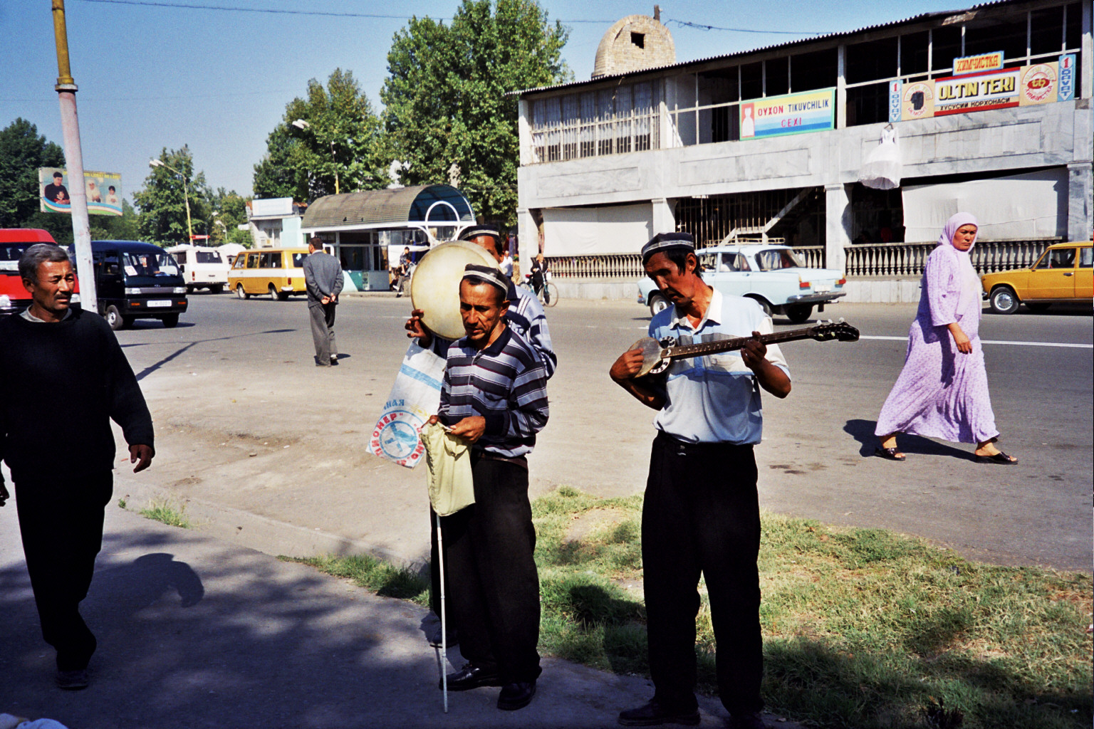 street musicians